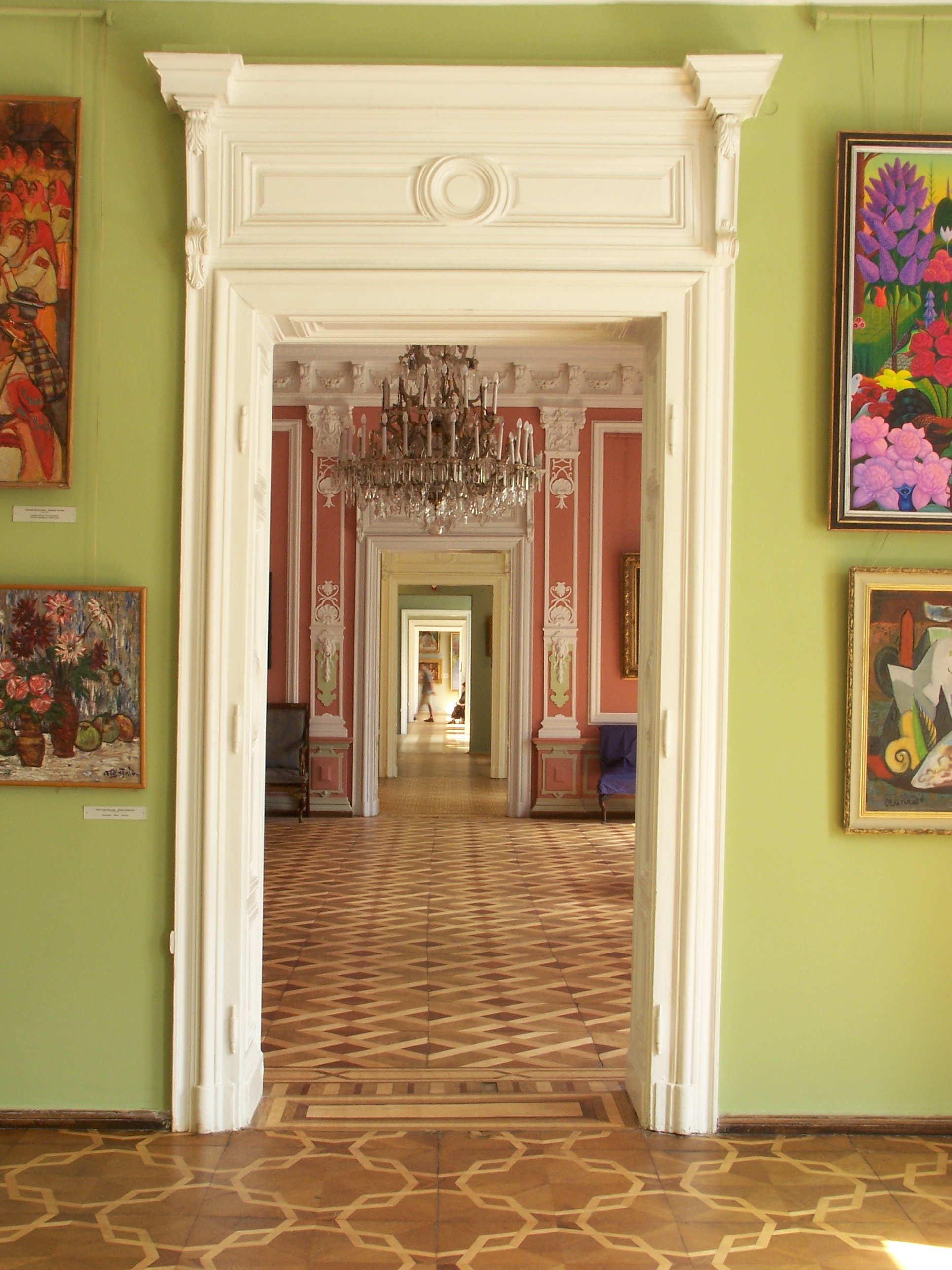 Gallery of Art in Lviv.